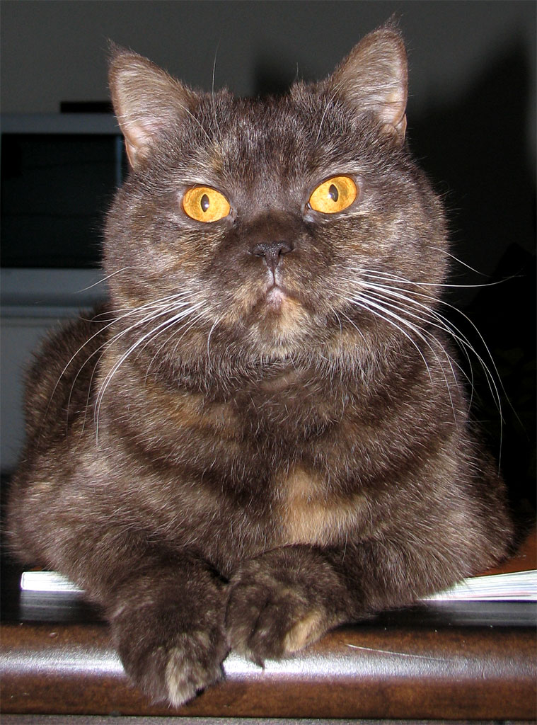 chocolate tortie brits korthaar poes eigen foto